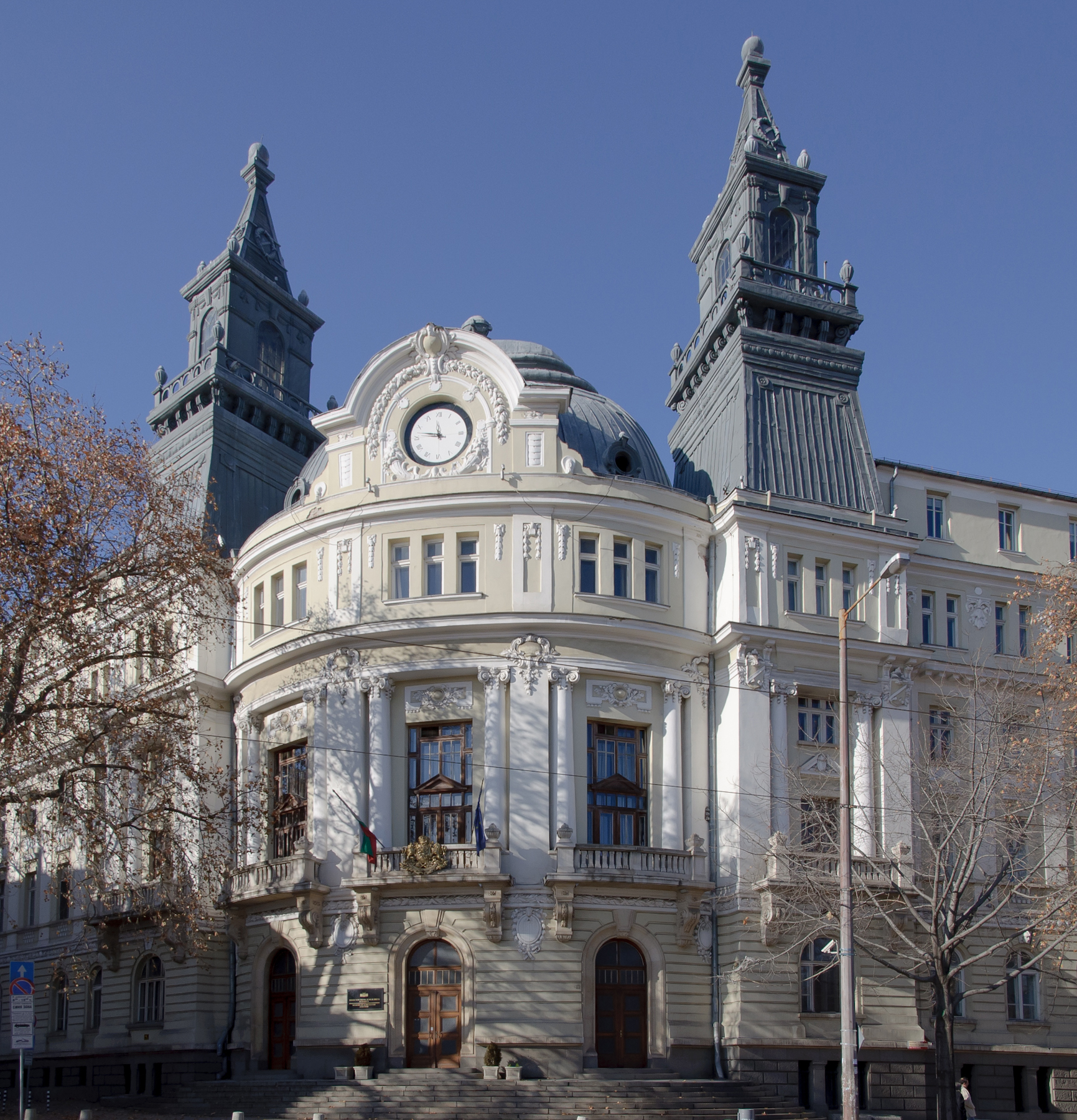 The Ministry of Agriculture headquarters in Sofia, Bulgaria.